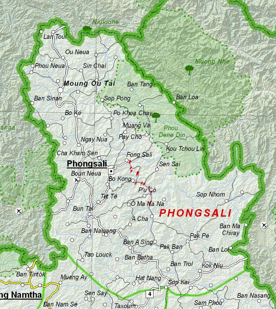 Map of Phonsali Province, Laos.